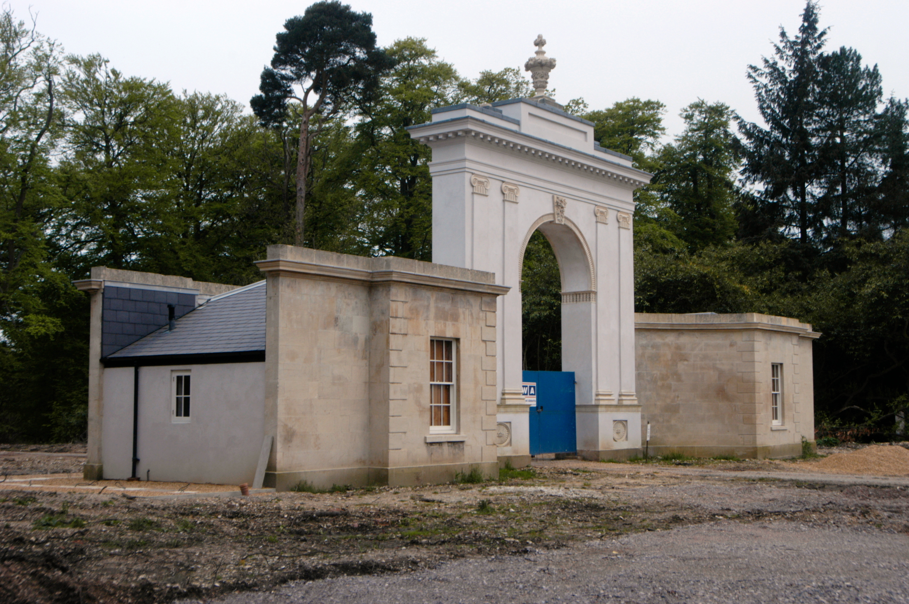 My photo (taken my me, R. de SalisRodolph (talk) 11:54, 11 May 2014 (UTC)) of London Lodge (1793), brick but Coade stone dressed, and wings (1840), Highclere Castle, Hampshire, May 2014.